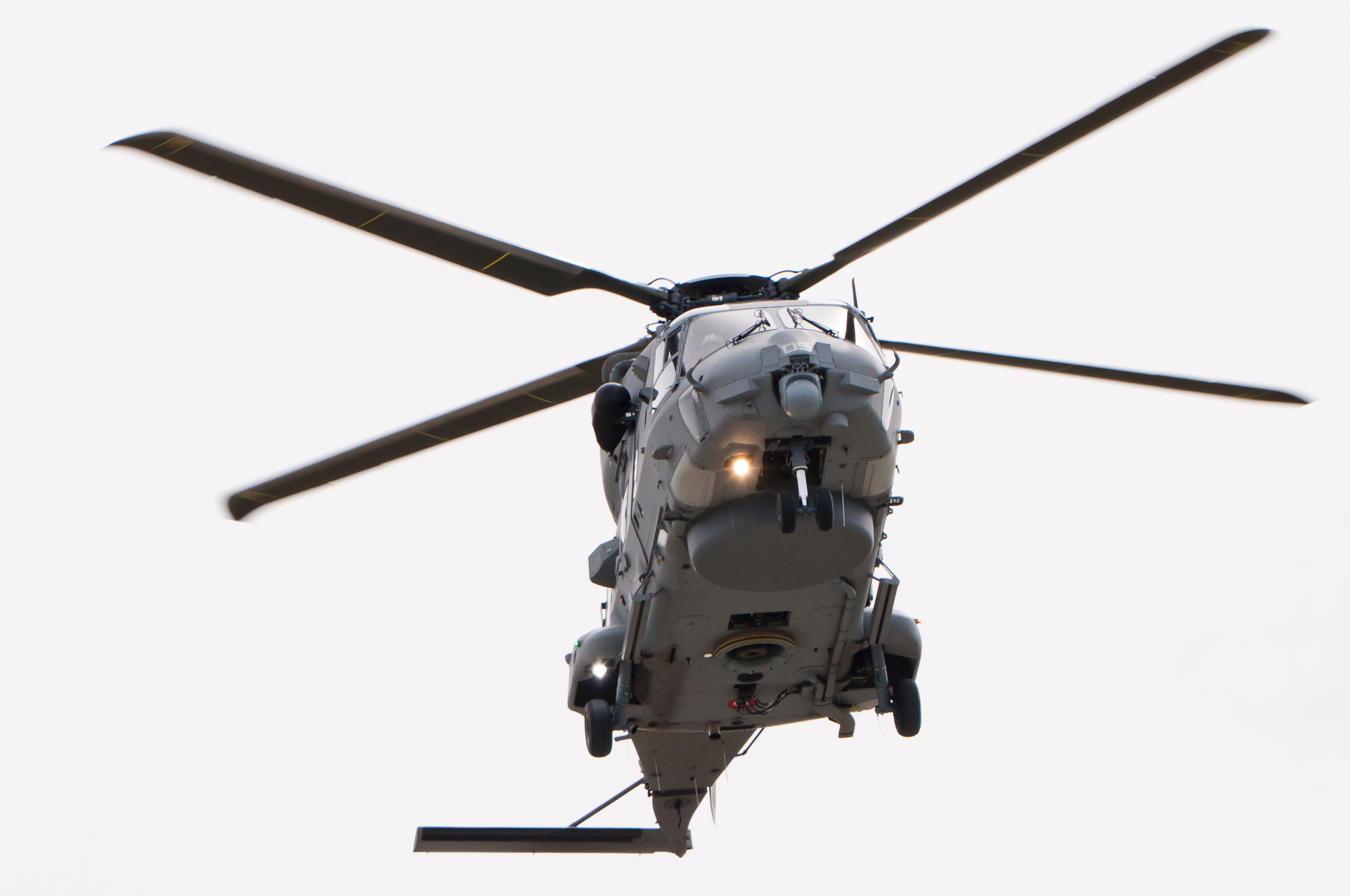 NH Industries NH-90 NFH (cn 1042, reg. MM81581) belonging to the Italian Navy, flying a display at ILA Berlin Air Show 2012.